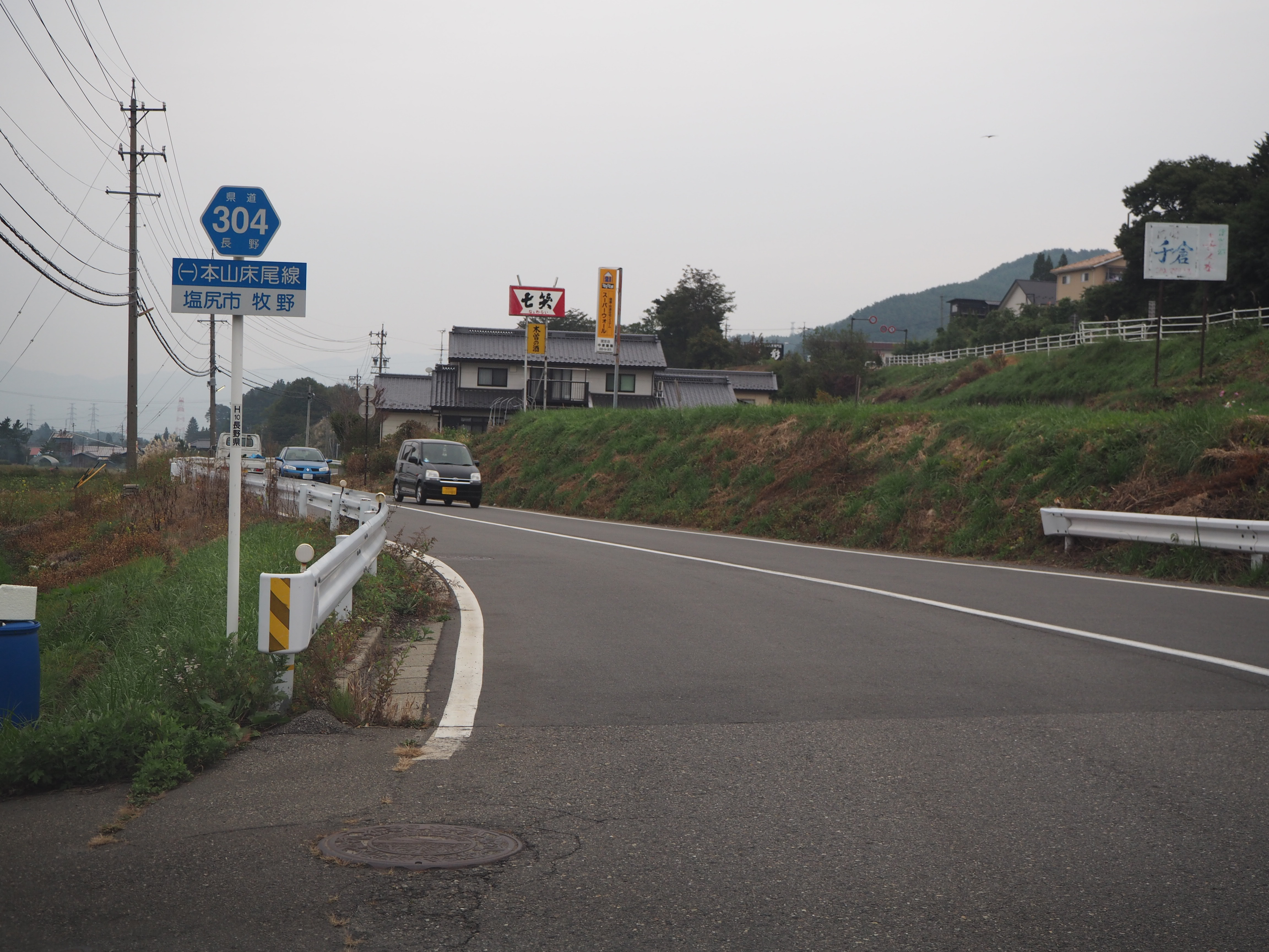 Nagano Prefectural road 304